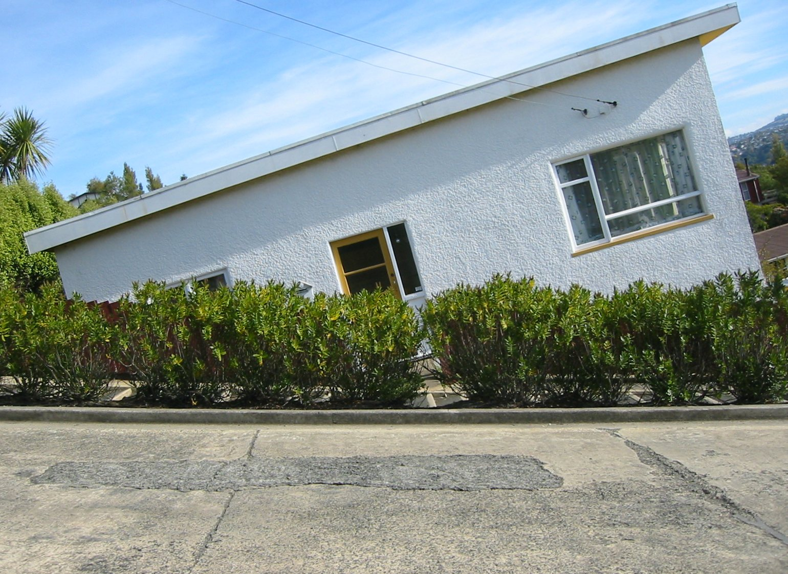 Baldwin Street, Dunedin, New Zealand